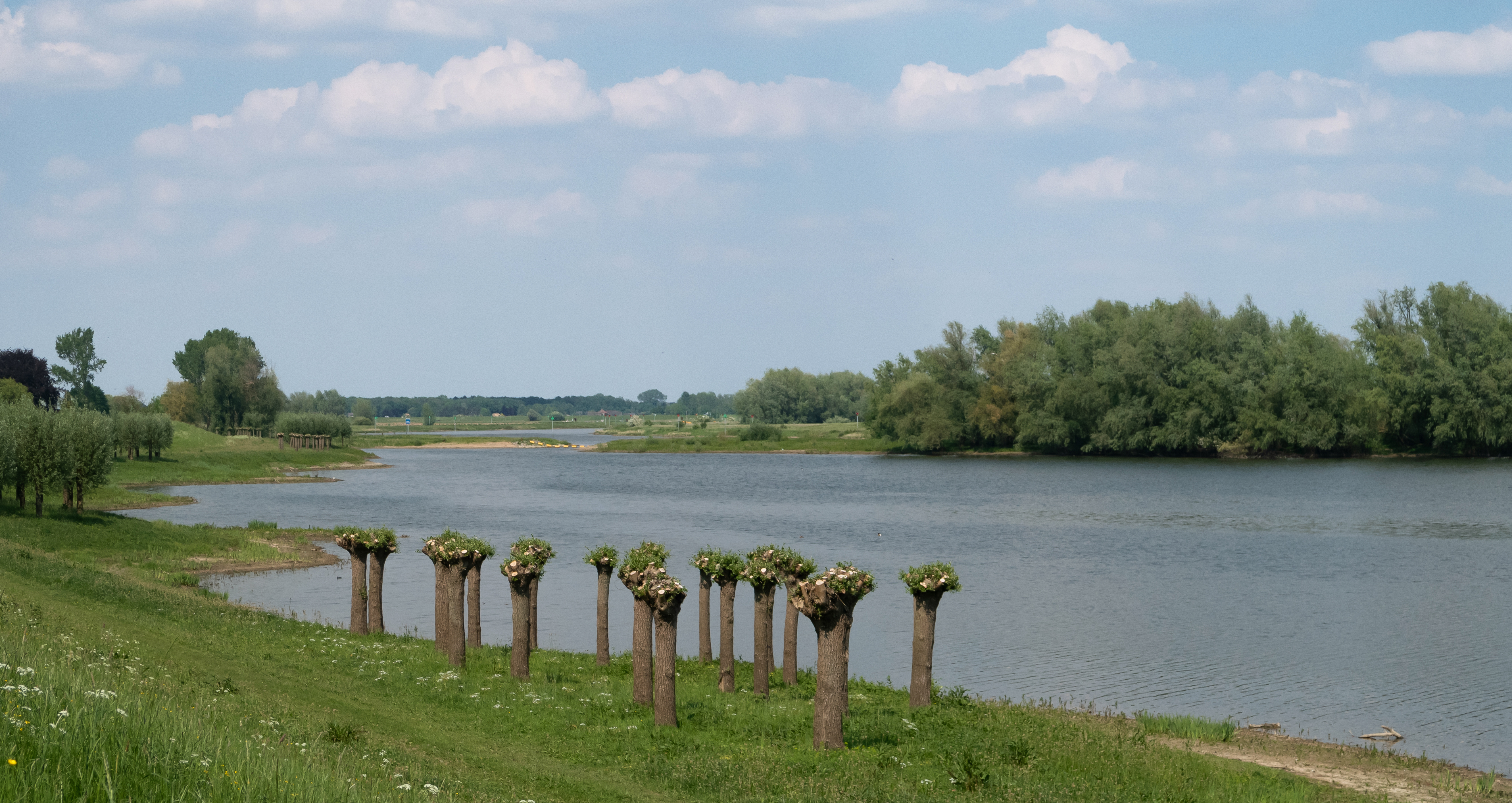 between Welsum and Welsumerveld, flood plain the IJssel